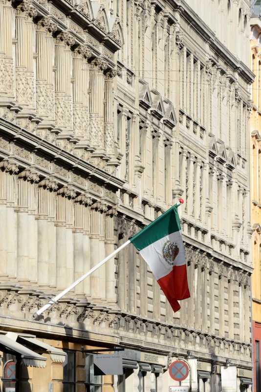 Mexican embassy at Bredgade 65 in Copenhagen, Denmark